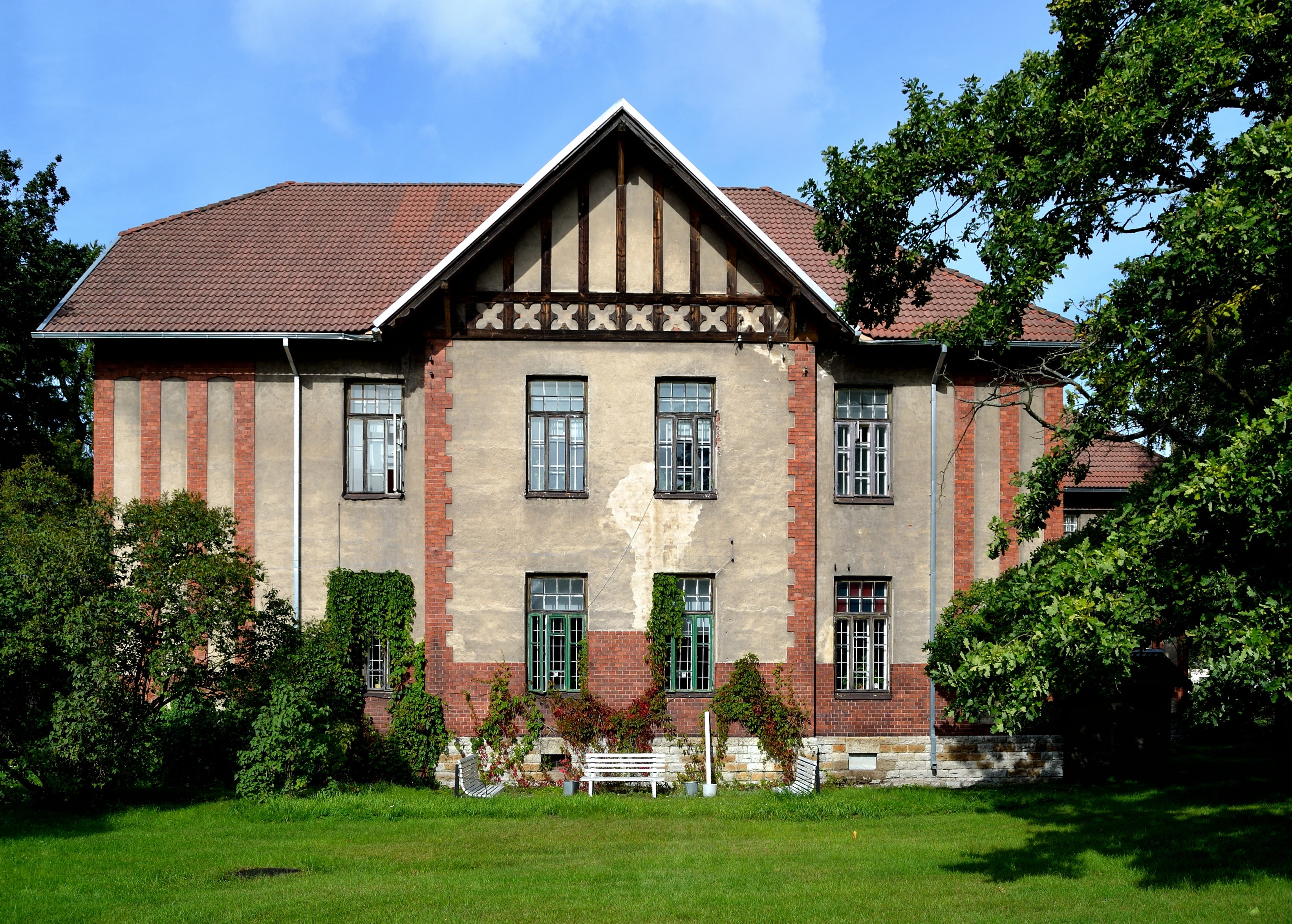 Tallinn, Seewald psychiatric hospital on Paldiski mnt 52-3, built in 1909